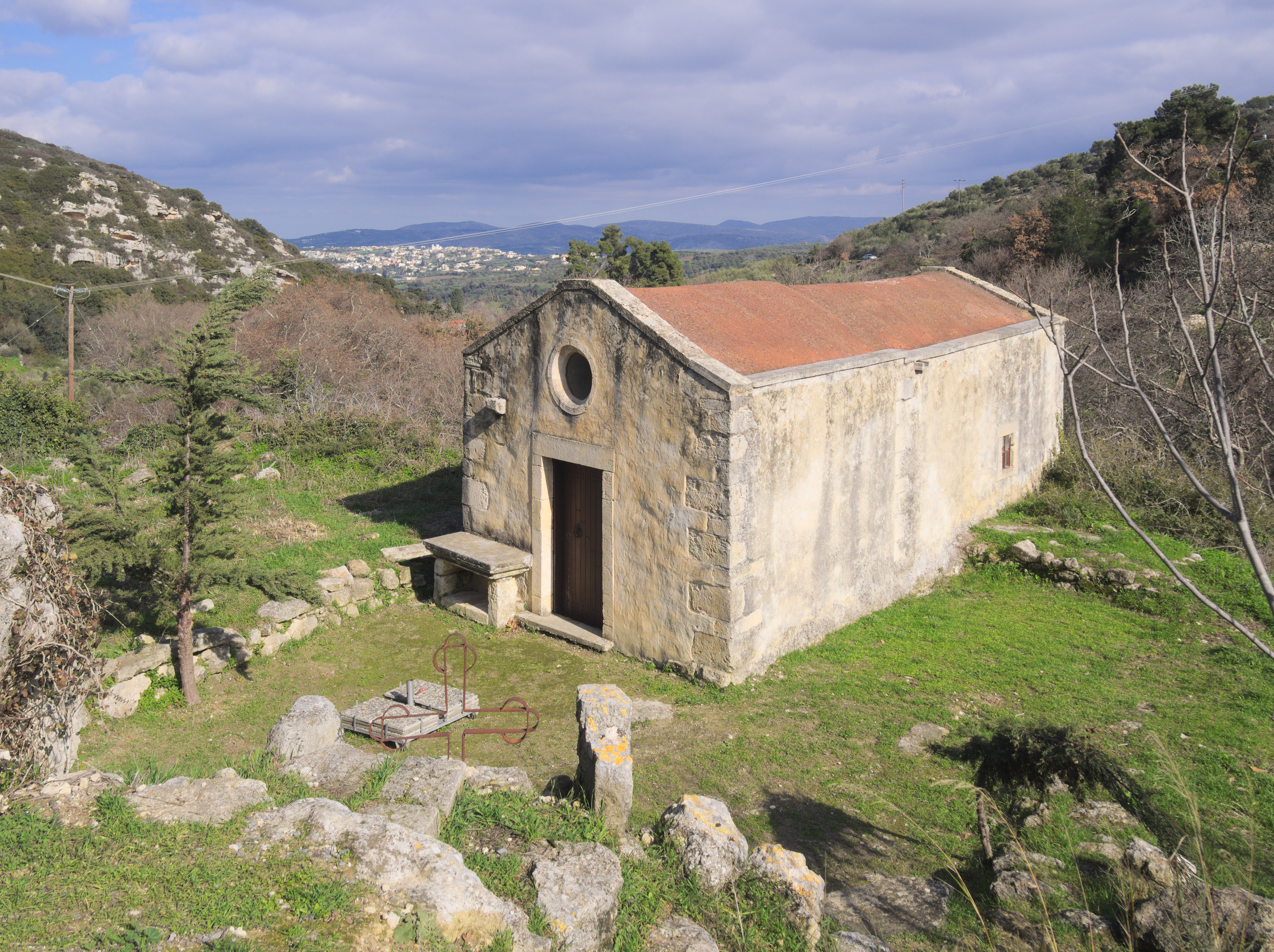 The 13th century church of Saint Nikolaus at Houdetsi.